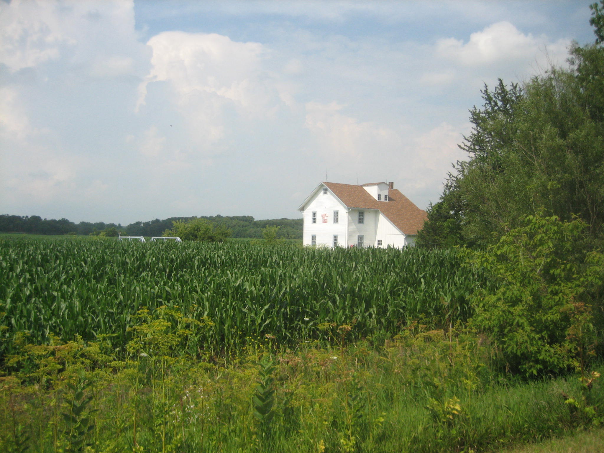 Malvern Roller Mill, north of Morrison, Illinois. U.S. National Register of Historic Places